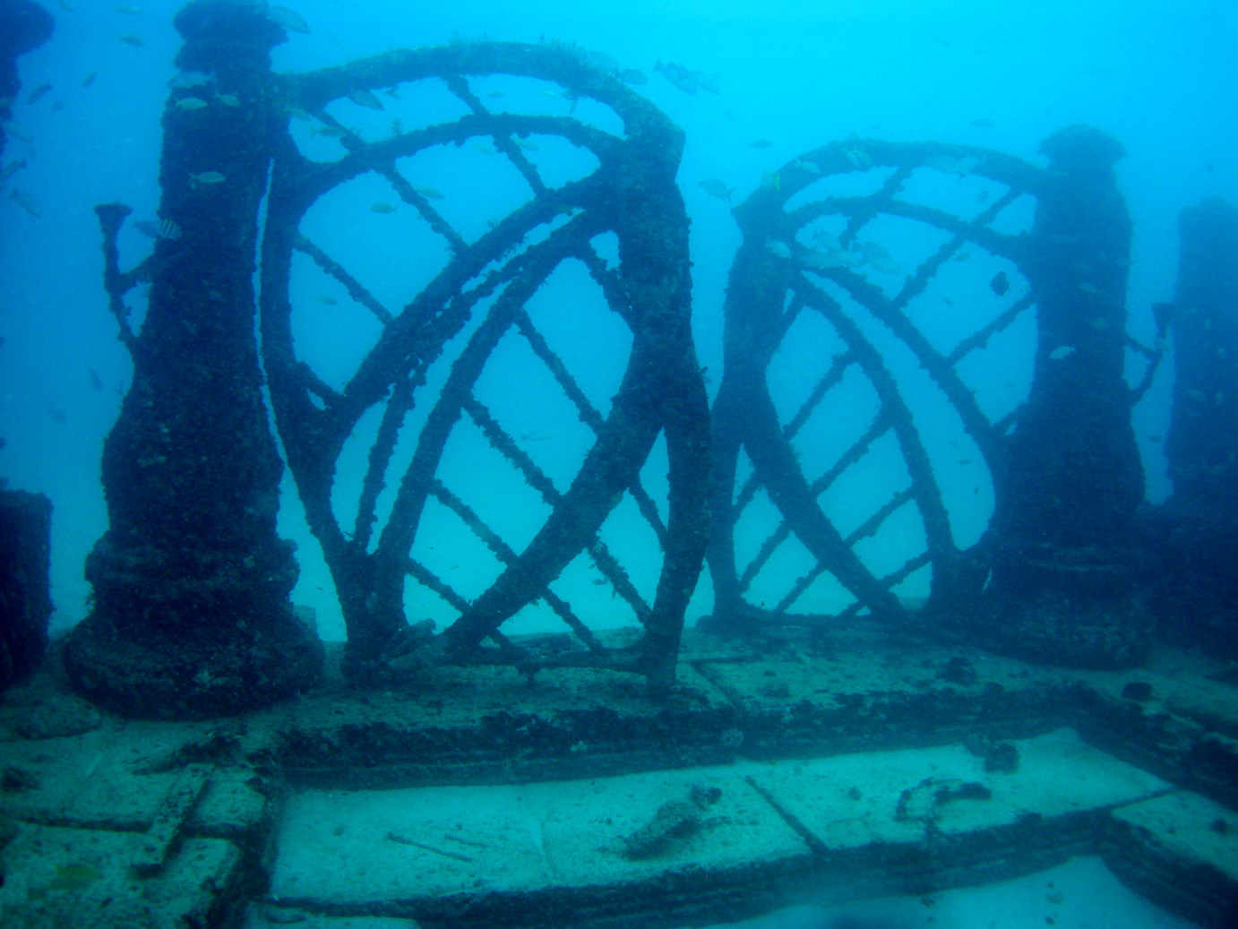 The gates of the Neptune Memorial Reef off the coast of Key Biscayne, Florida.